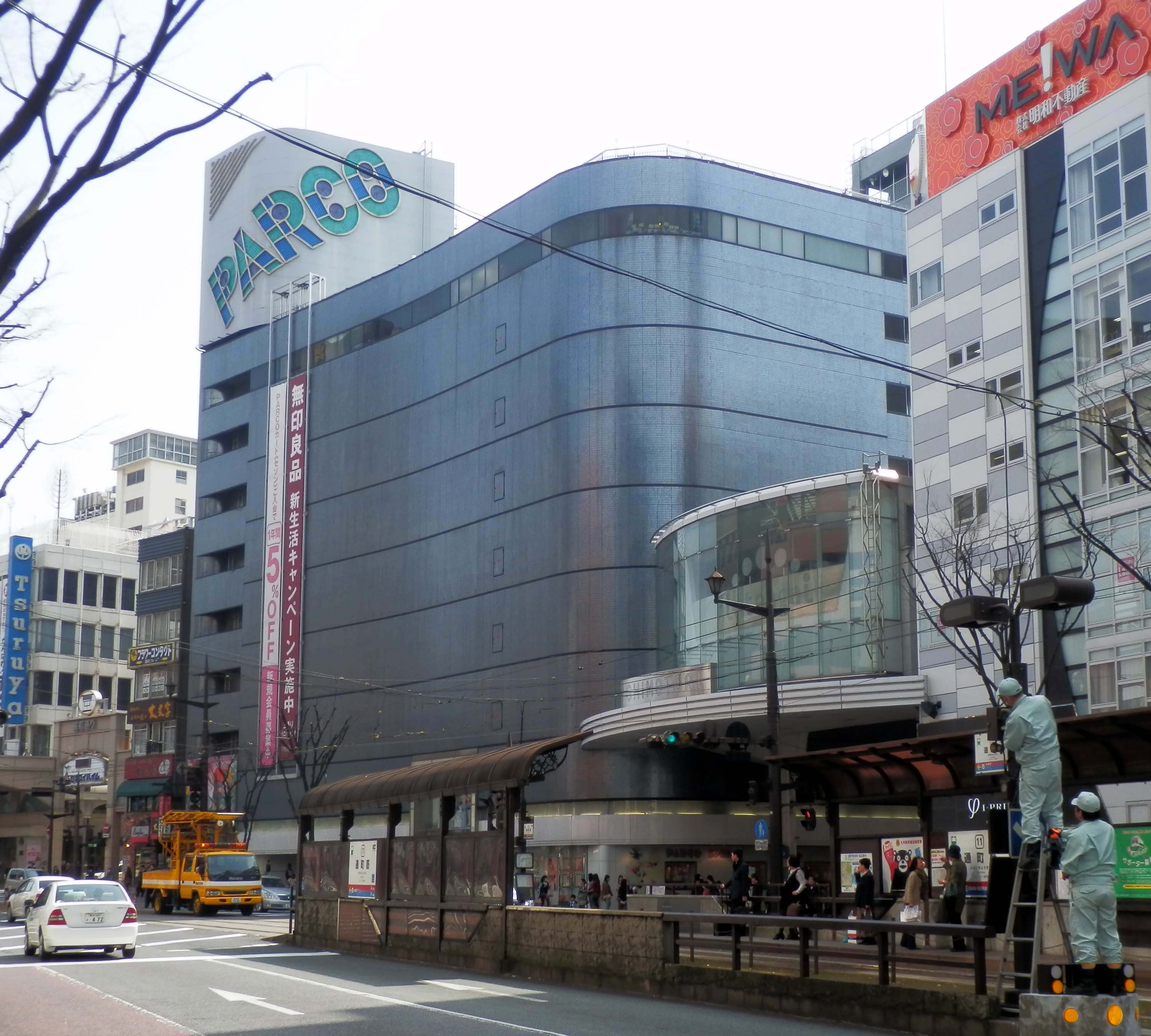 Kumamoto PARCO (Department store in Japan)